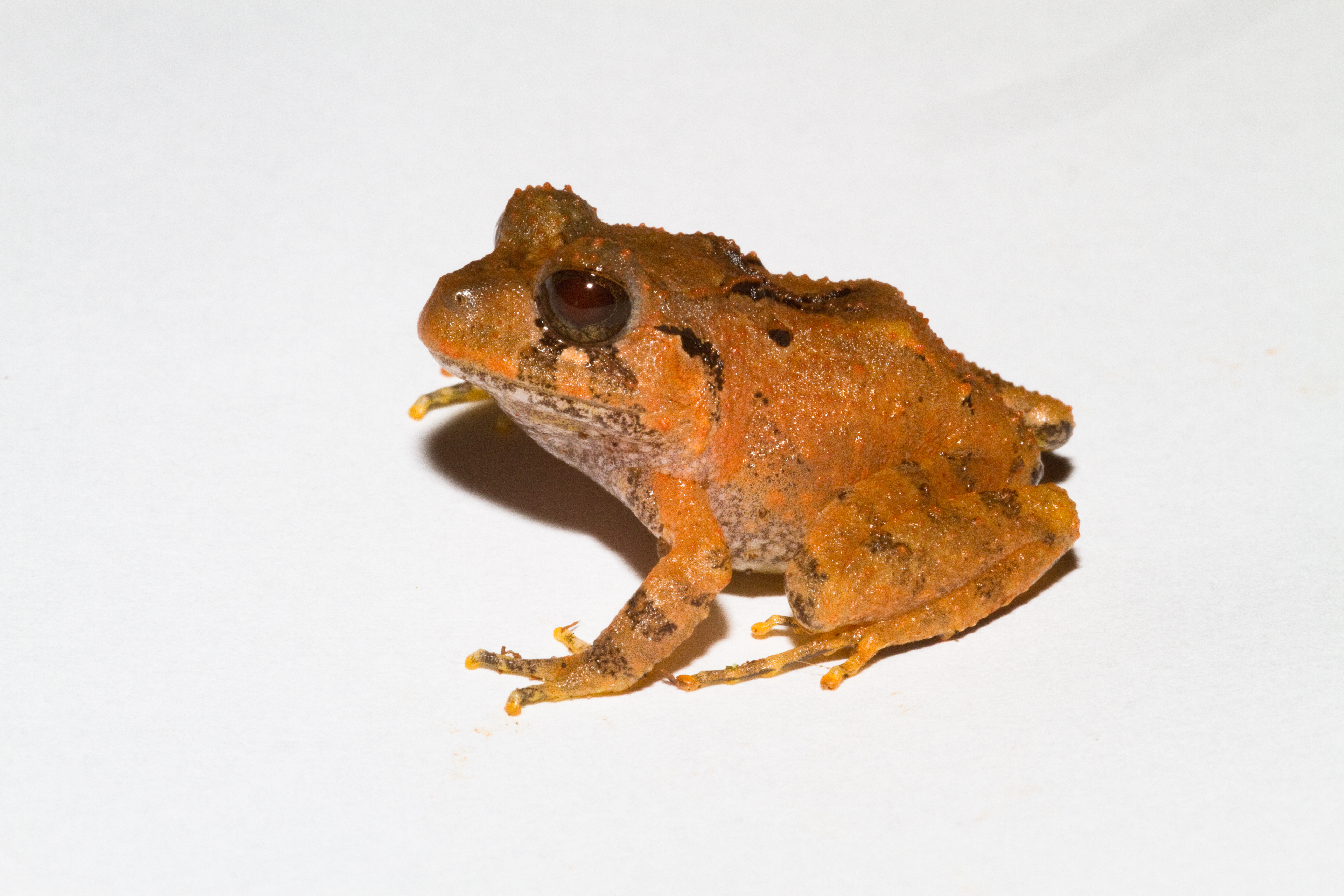 Craugastor megacephalus, note hourglass ridges on shoulders.